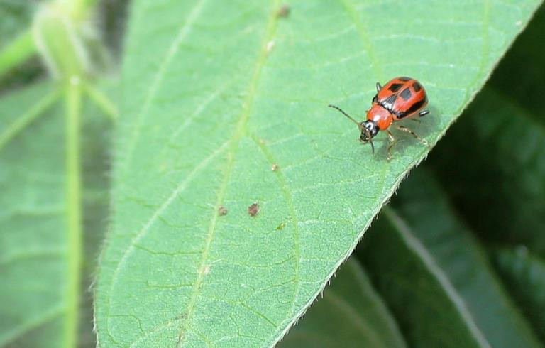 Red bean leaf beetle morph.